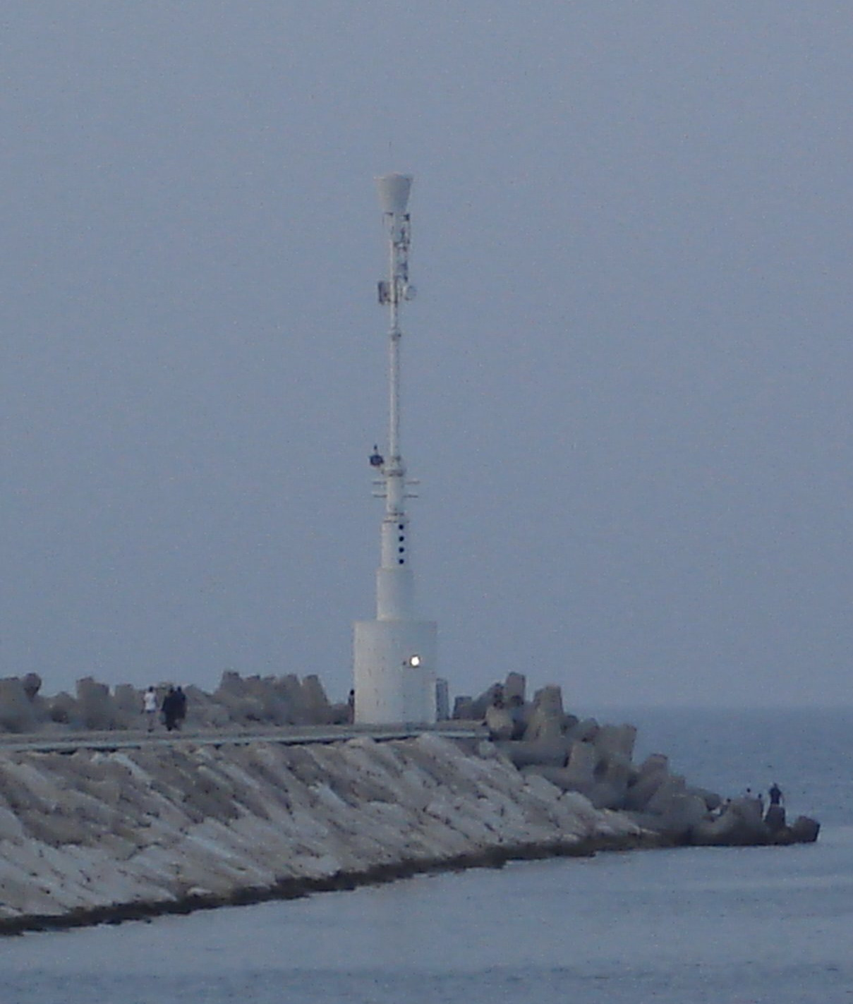 Ashkelon Marina Breakwater Light, image taken from 31° 40' 52.68" N 34° 33' 14.12" E